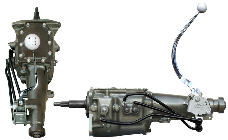 Ford Design, manual transmission, more familiarly referred to as a "Toploader", with typical external gear shifter. Specifically, this unit is a RUG CL 3+1 three speed overdrive gearbox from a late 1970s Ford with Hurst four speed shifter.